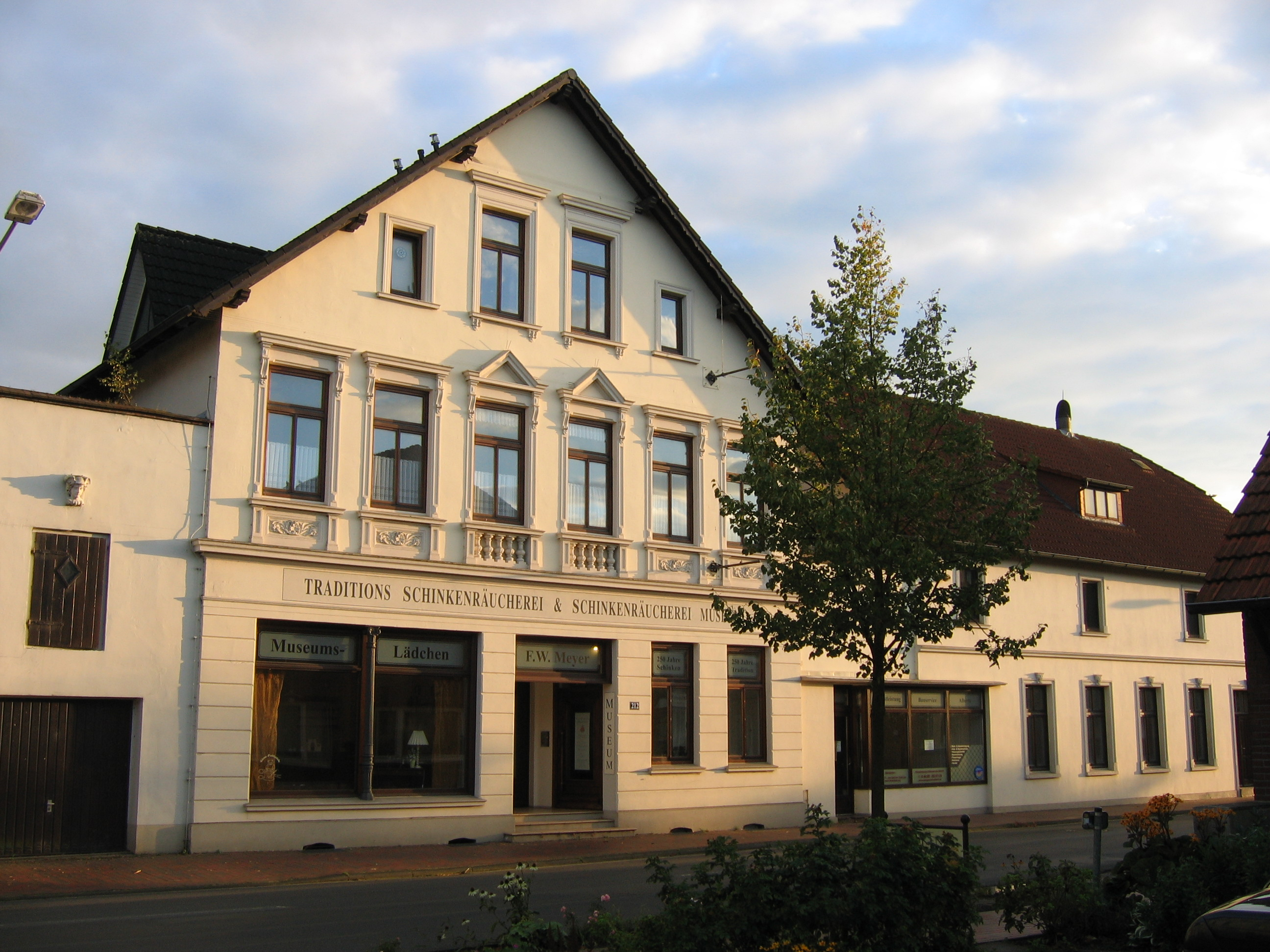 ham museum